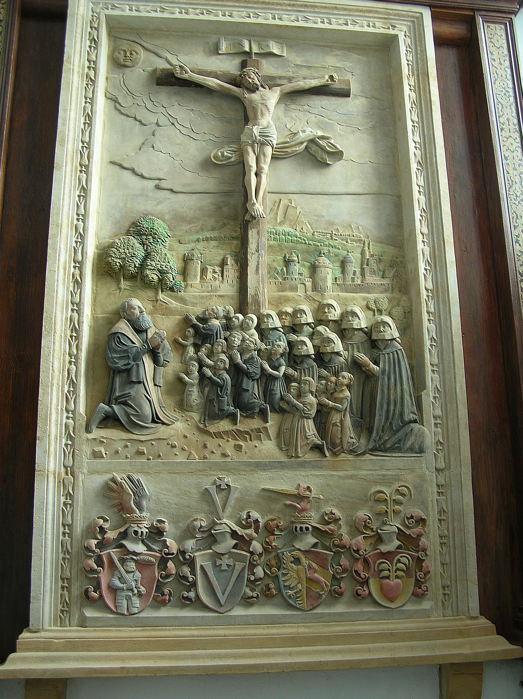 Epitaph of Nicolaus von Uthmann und Schmolz from 1545, church of St. Elisabeth in Wrocław